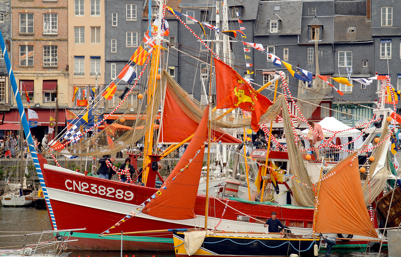 Honfleur Harbour, June 2012